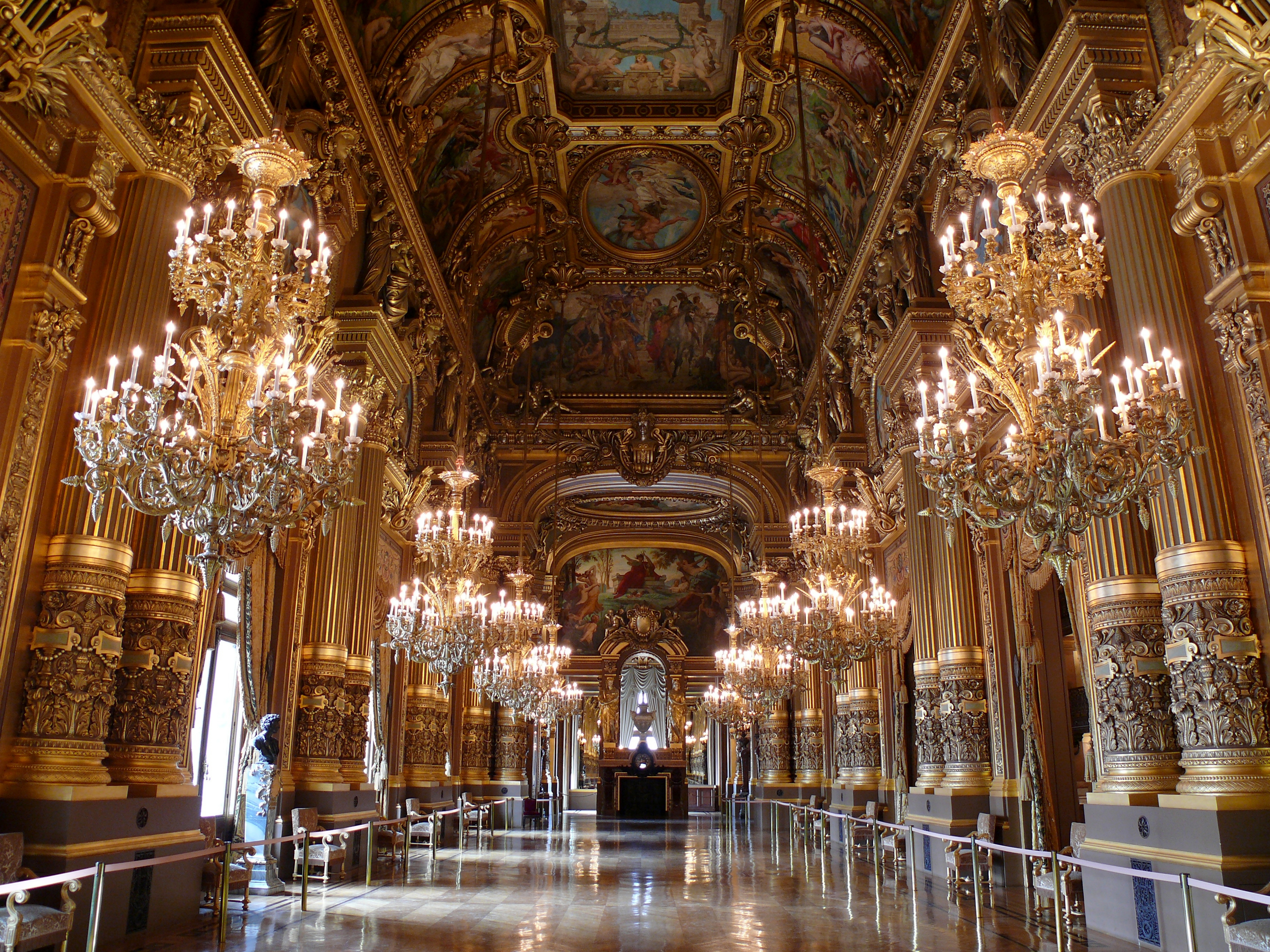 Photograph shot with a Panasonic Lumix DMC FZ50, F3.2, 35 mm with wide-angle lens. Software DXO Optics Pro 5 used for enhancing the image. Photographie prise avec un Panasonic Lumix DMC FZ50, ouverture F3.2, en 35 mm avec convertisseur grand angle. Le logiciel DXO Optics Pro 5 a été utilisé pour raviver l'image.